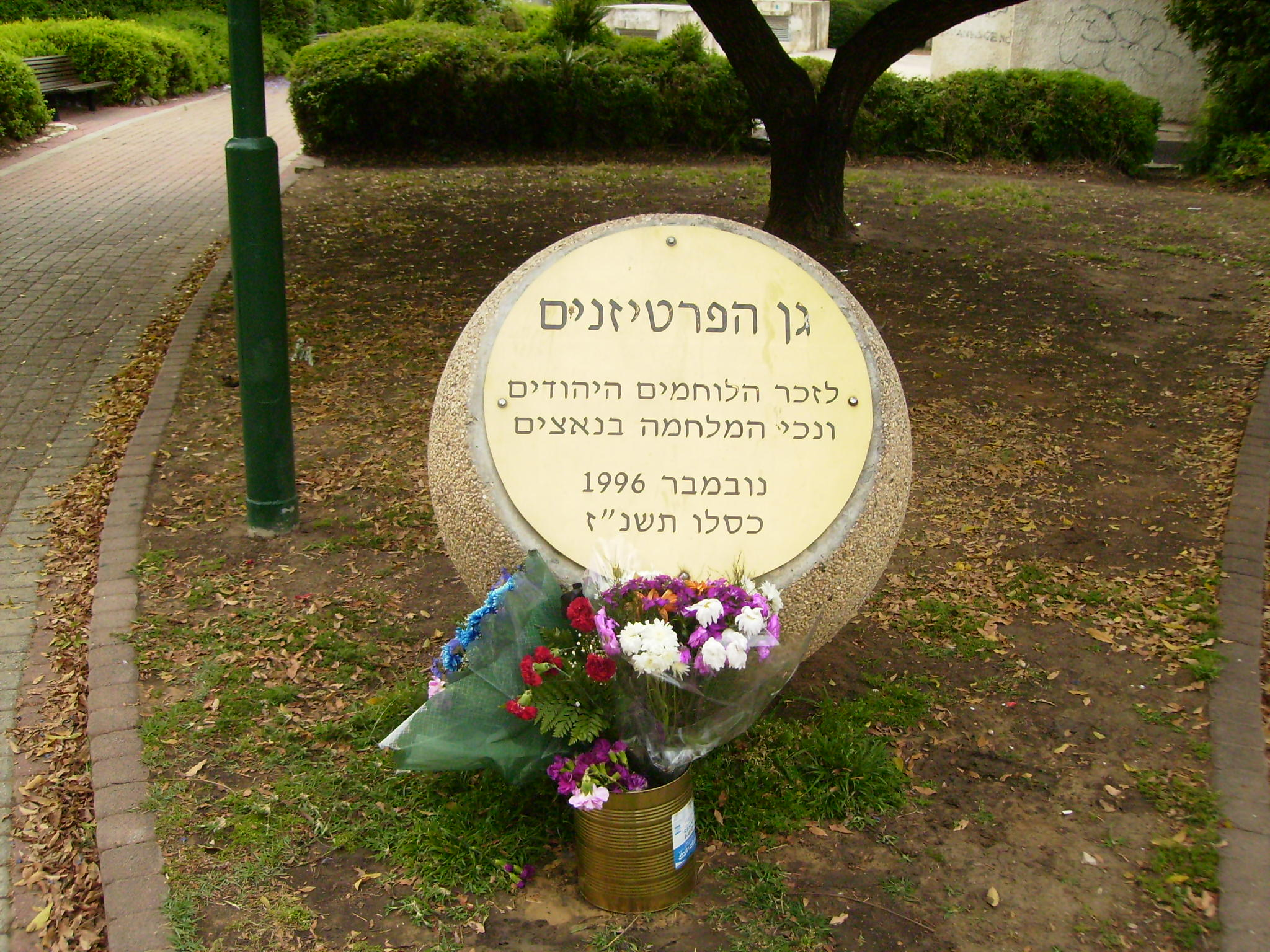 The Partisan Garden in Holon, Israel. The sign denoting the Garden's name was decorated with flowers by local citizens on the occasion of Yom HaShoah and 9 May still commemorated by many Jewish Russian immigrants.